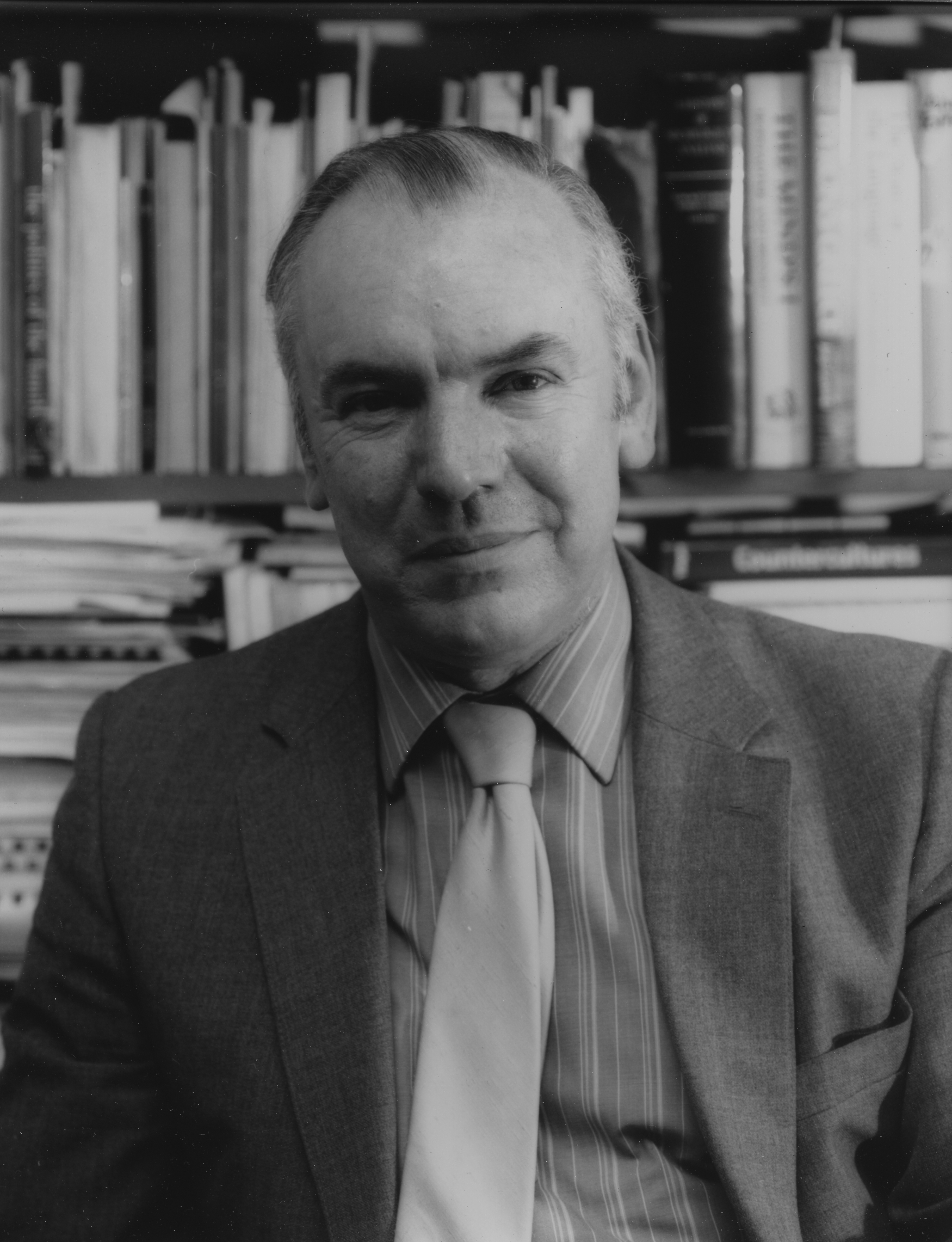 Professor of Sociology, 1970-1989 IMAGELIBRARY/1280 Persistent URL